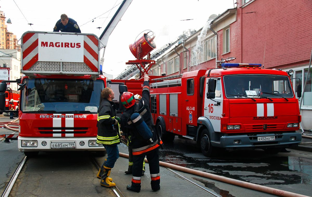 Fire engines of Moscow.